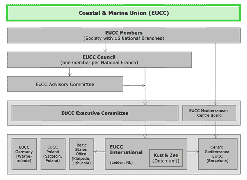 EUCC structure